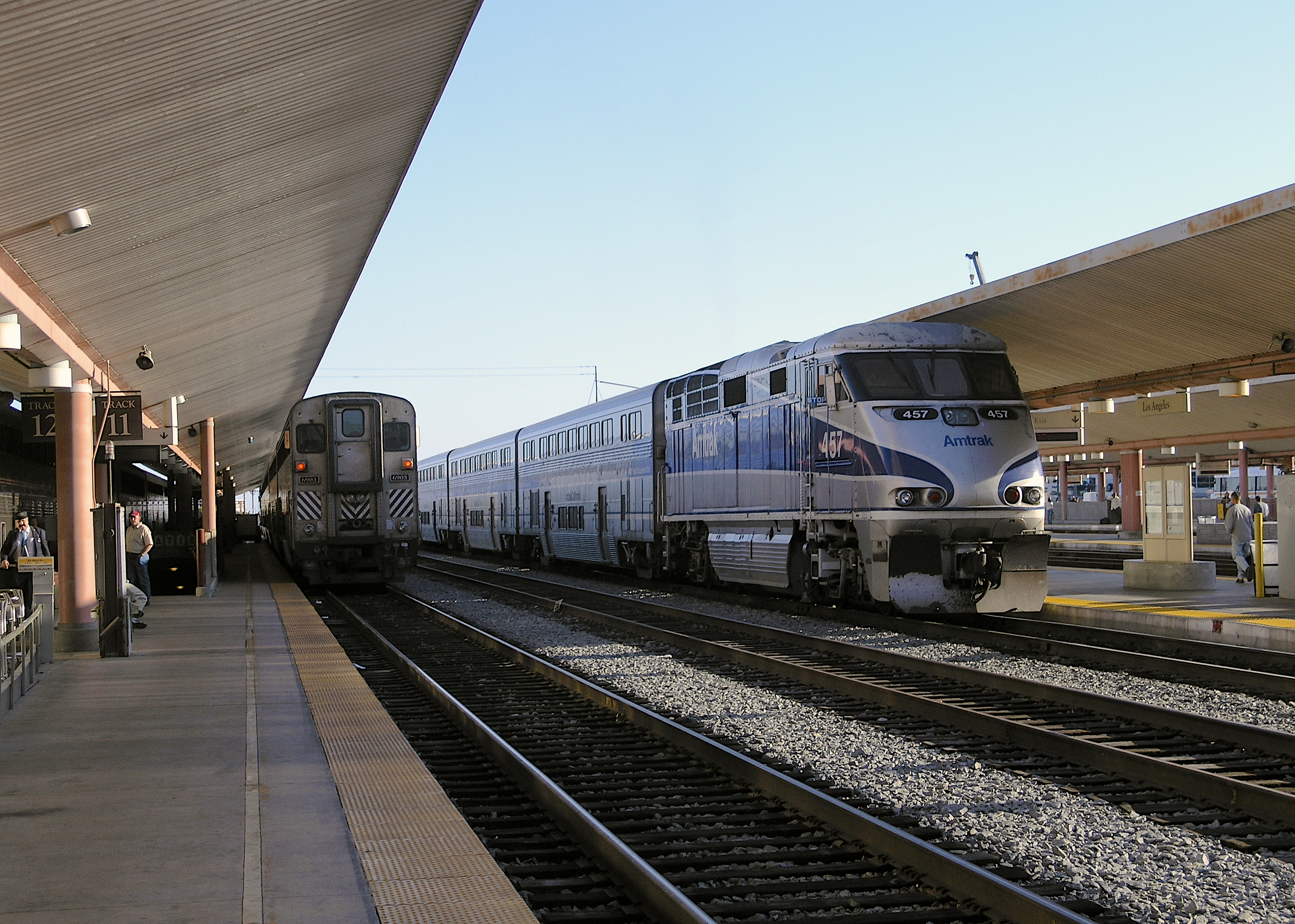 Pacific Surfliner trains at Los Angeles Union Passenger Terminal in May 2005